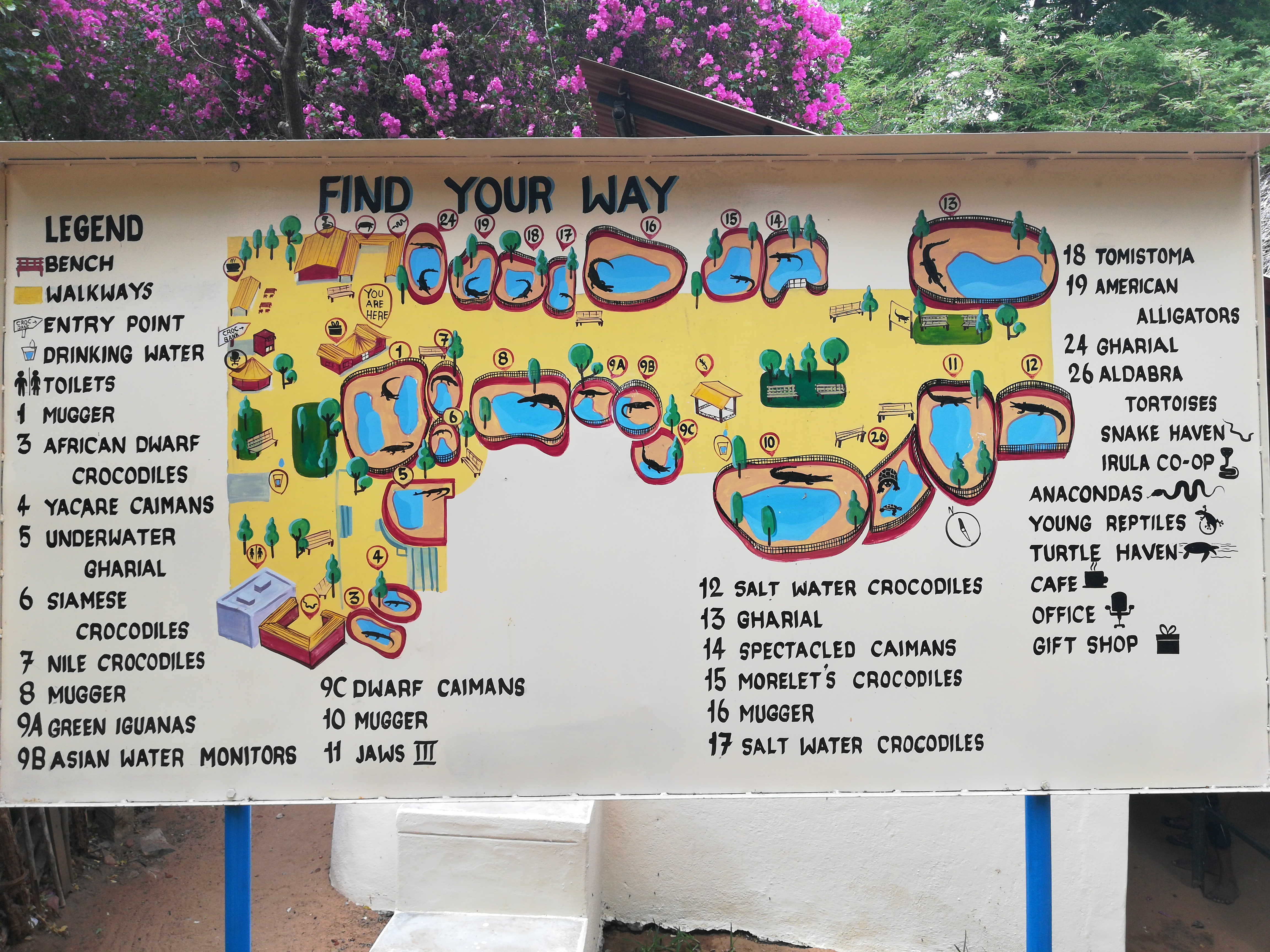 Zoo Map of the CrocBank, Chennai, on 21 July 2018